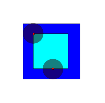 Author: Renato Keshet Source: Inkscape Date: July 6th, 2008